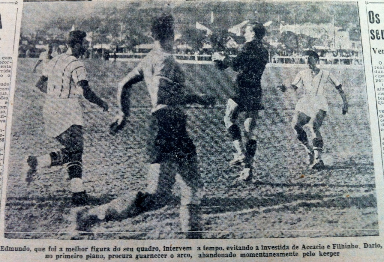 Match between the Brazilian teams of Forca e Luz and Gremio FBPA in June of 1940. Forca e Luz won by 3x2.